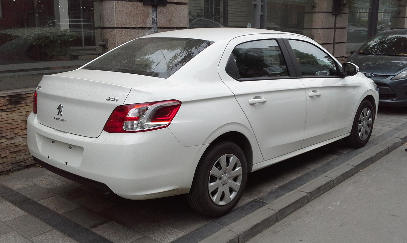 Peugeot 301 photographed in Chengdu, Sichuan province, China.